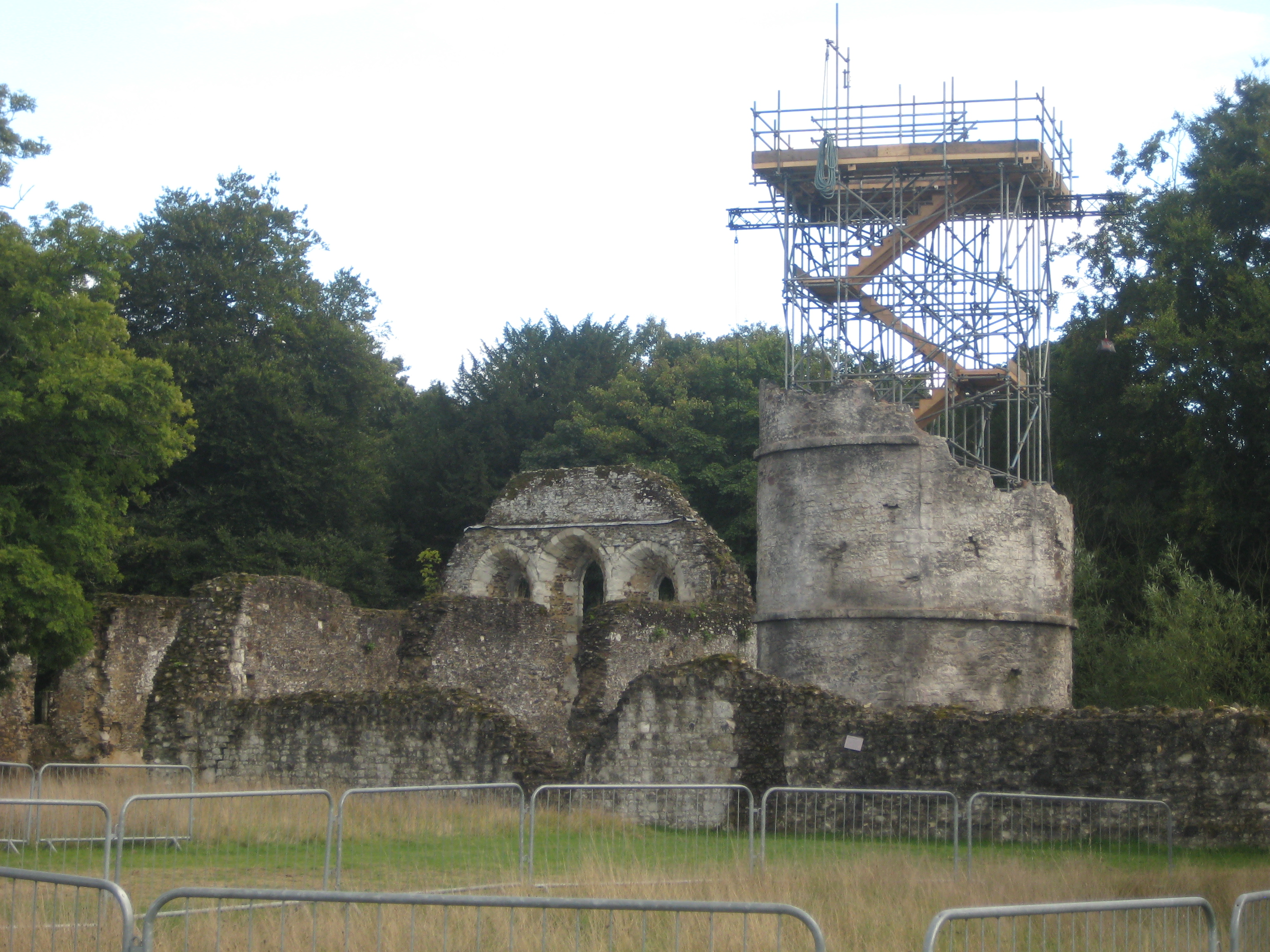 Set of the film, Into the Woods (2014) under construction at Waverley Abbey, Farnham, Surrey. The artificial tower between the abbey's dorter on the left and the refectory on the right is Rapunzel's Tower.